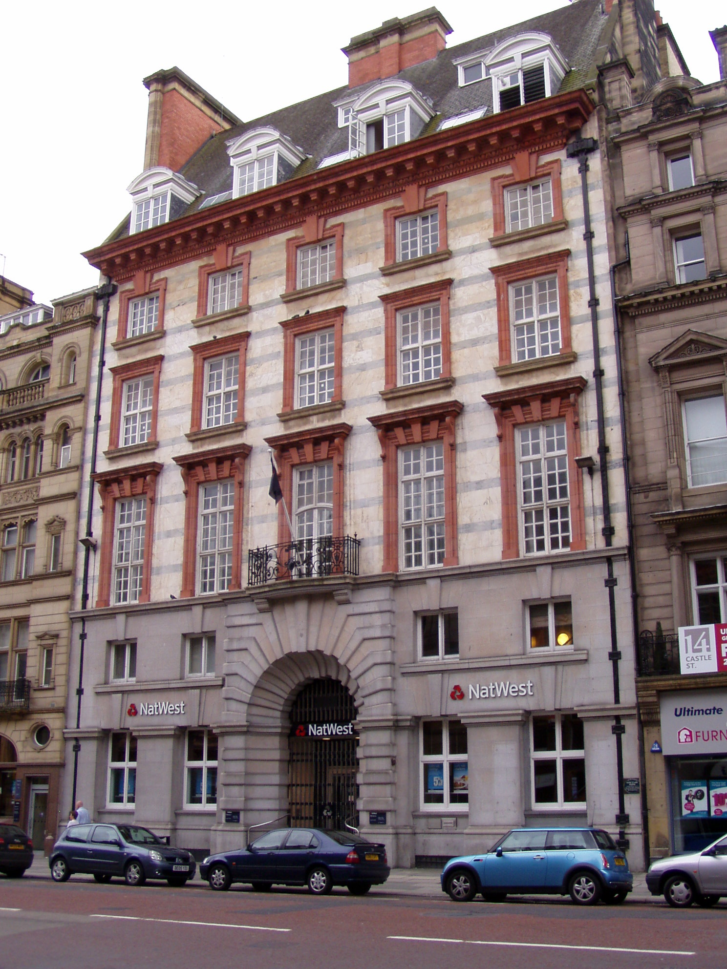 National Westminster Bank on Castle Street Liverpool